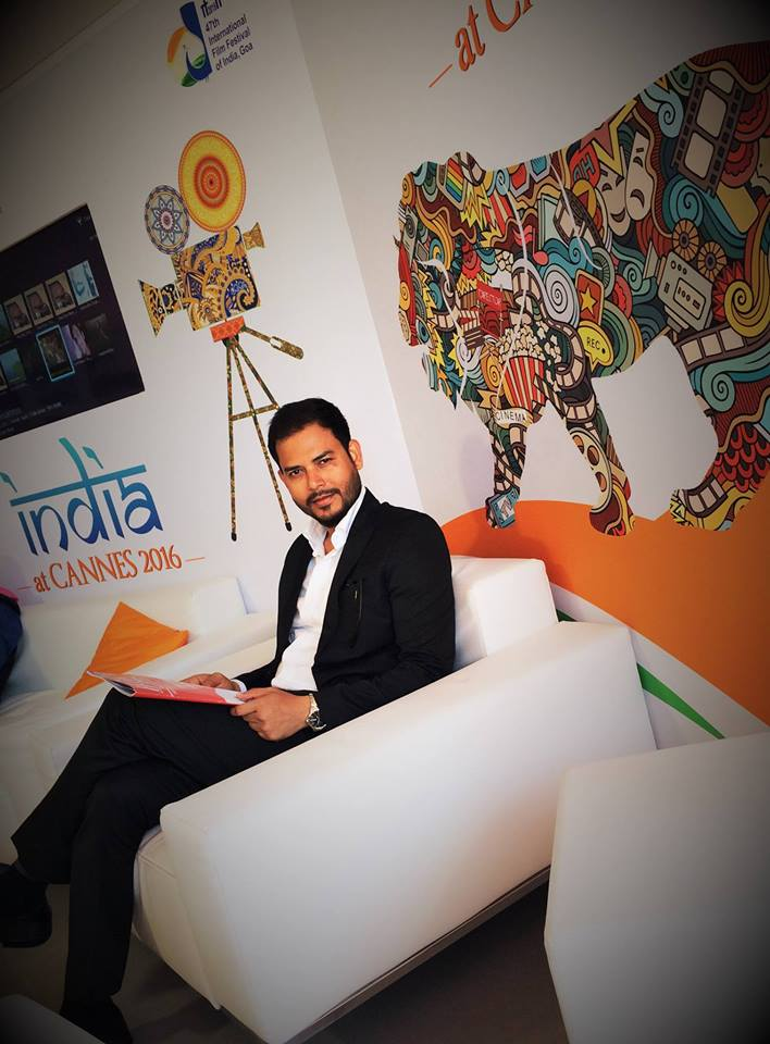 This picture was taken during a panel discussion in India Pavilion during 69th Cannes Film festival, on 14th May 2016